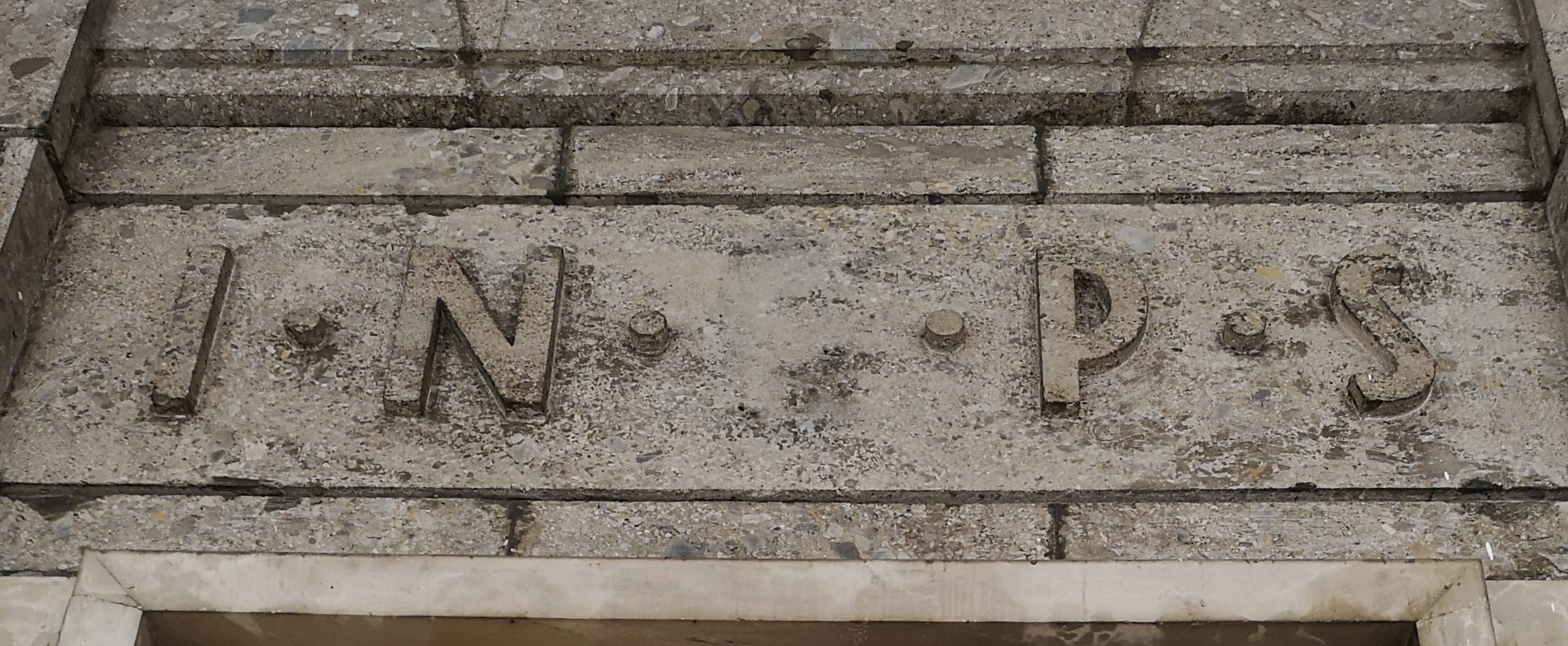 The original inscription on the main door of its Bozen-Bolzano INPS building, with the central "F" (for "Fascista") missing, 2019